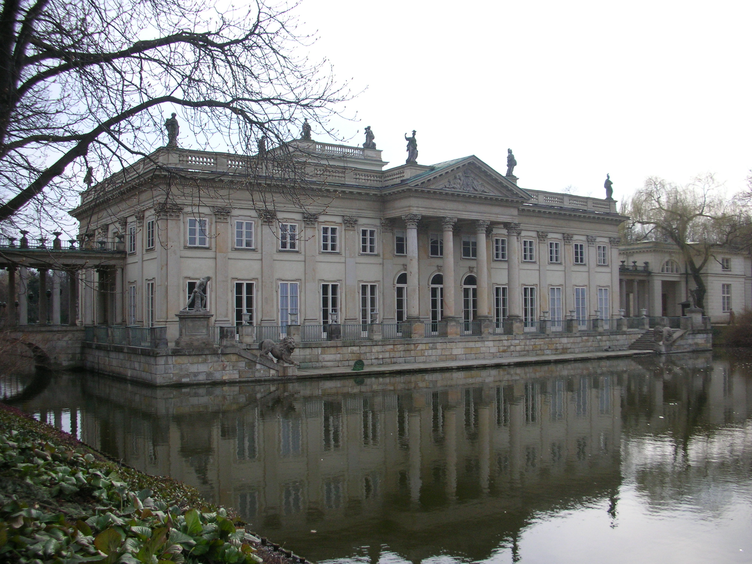 Palace in Lazienki Park, Warsaw (Poland)